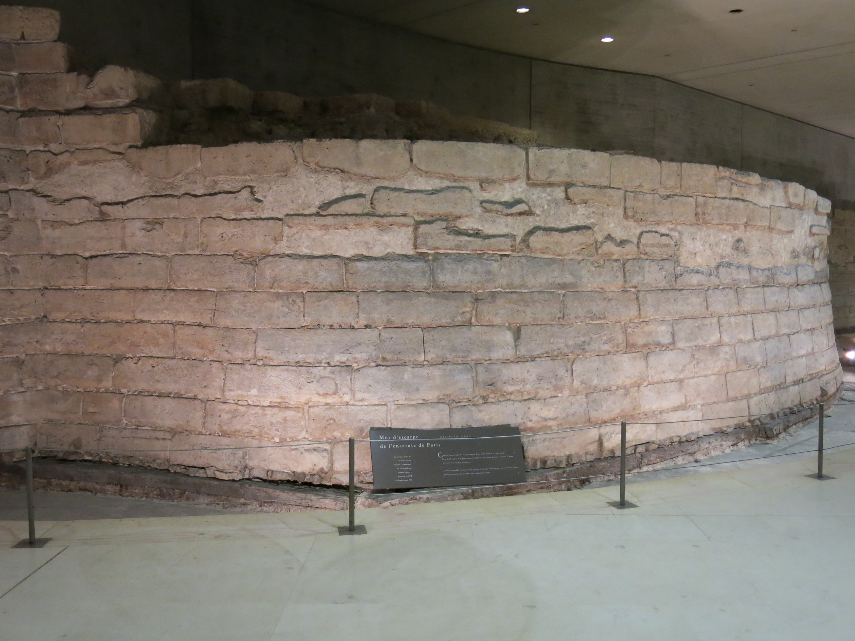 Walls of Paris (France) in the Carrousel du Louvre : artillery plateform of the wall of escarp. We see at the foot of the wall the wooden timber above which the wall is built.